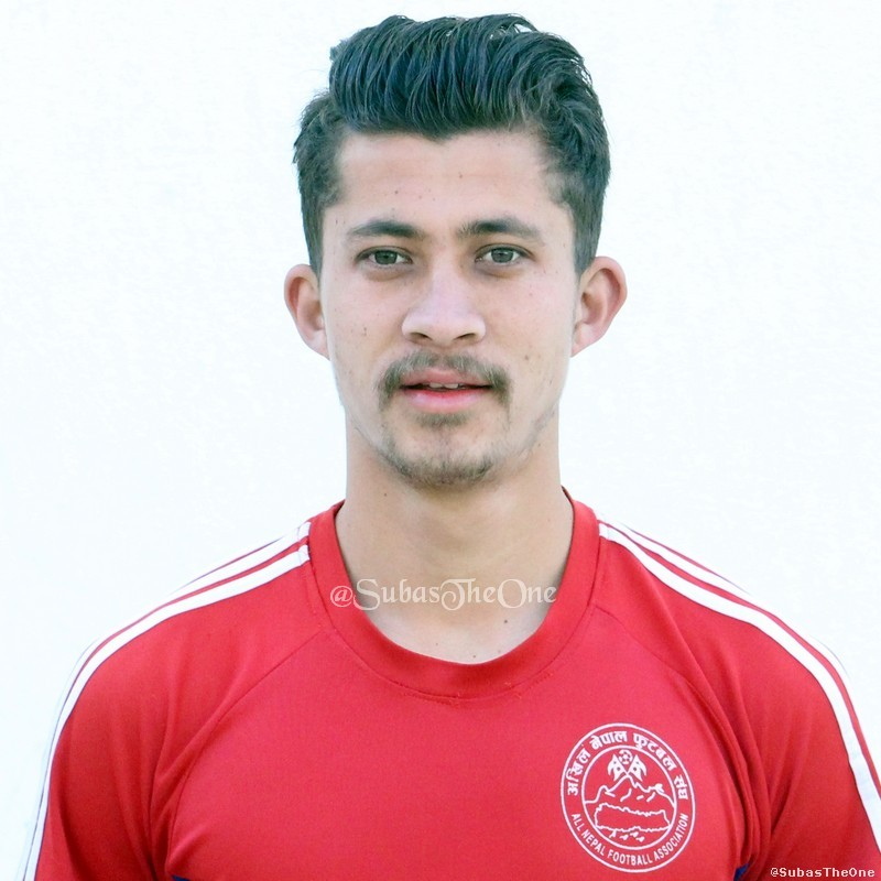 Portrait of Ananta Tamang by Subas Humagain